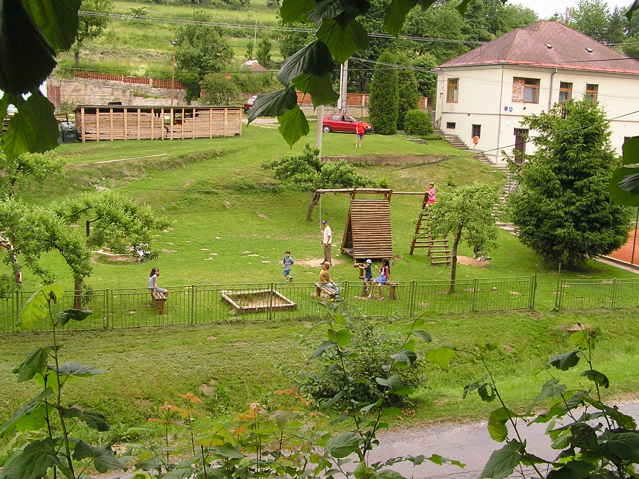 Slovakia, Presov county, Saris region, Klenov village, children-court